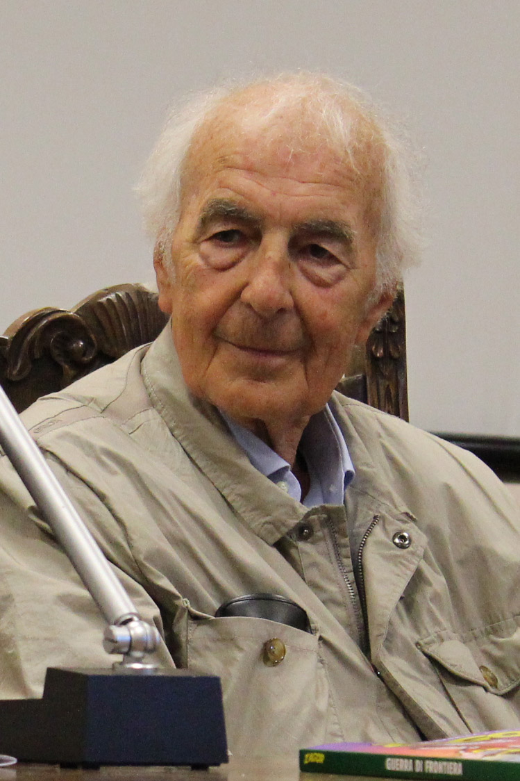 Albissola Comics 2013, May 4th-5th 2013, Albissola Marina, Savona, Italy